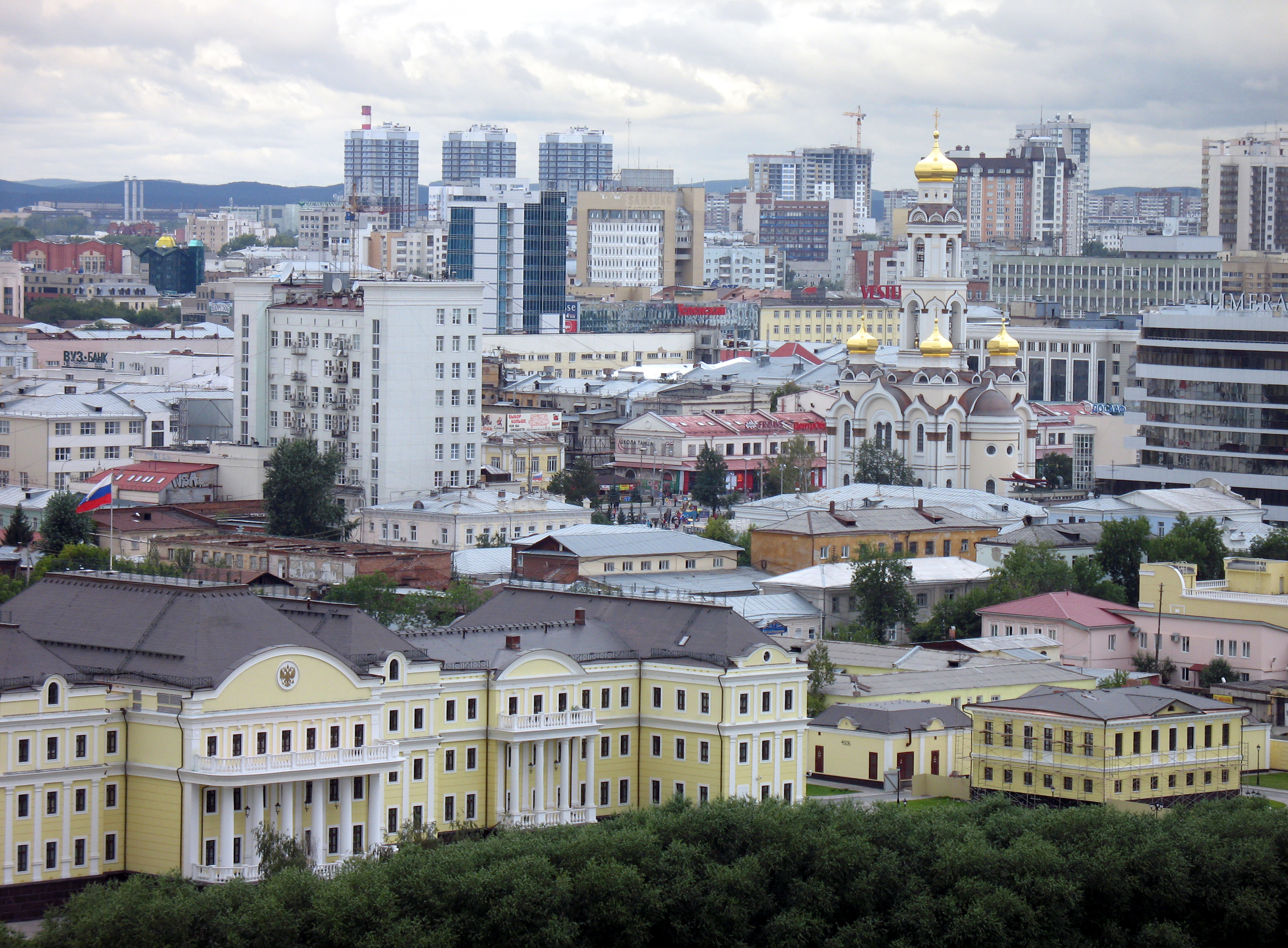 City view of Yekaterinburg, Russian Federation